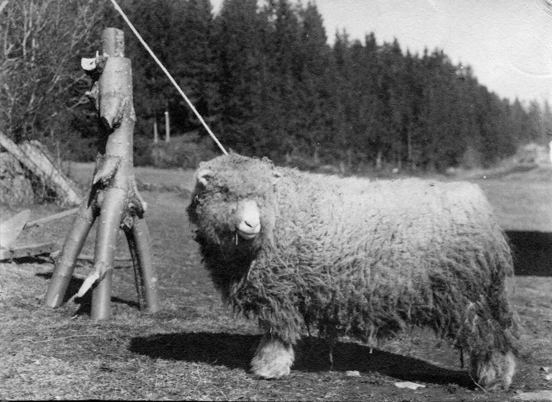 An ewe of an old Norwegian sheep breed, now extinct (since the 1970es). The breed, Tautersau, was named after the island Tautra, Frosta municipality in Nord-Trøndelag county